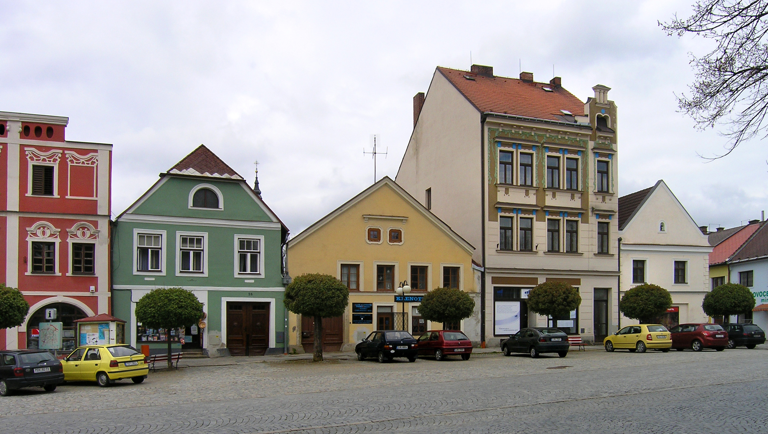 Čsl. armády square in Kamenice nad Lipou, Czech Republic